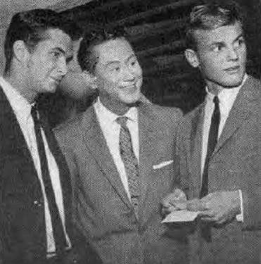 Photo from the US television show Juke Box Jury. Pictured from left are: Anthony Perkins, show host Peter Potter, and Tab Hunter.